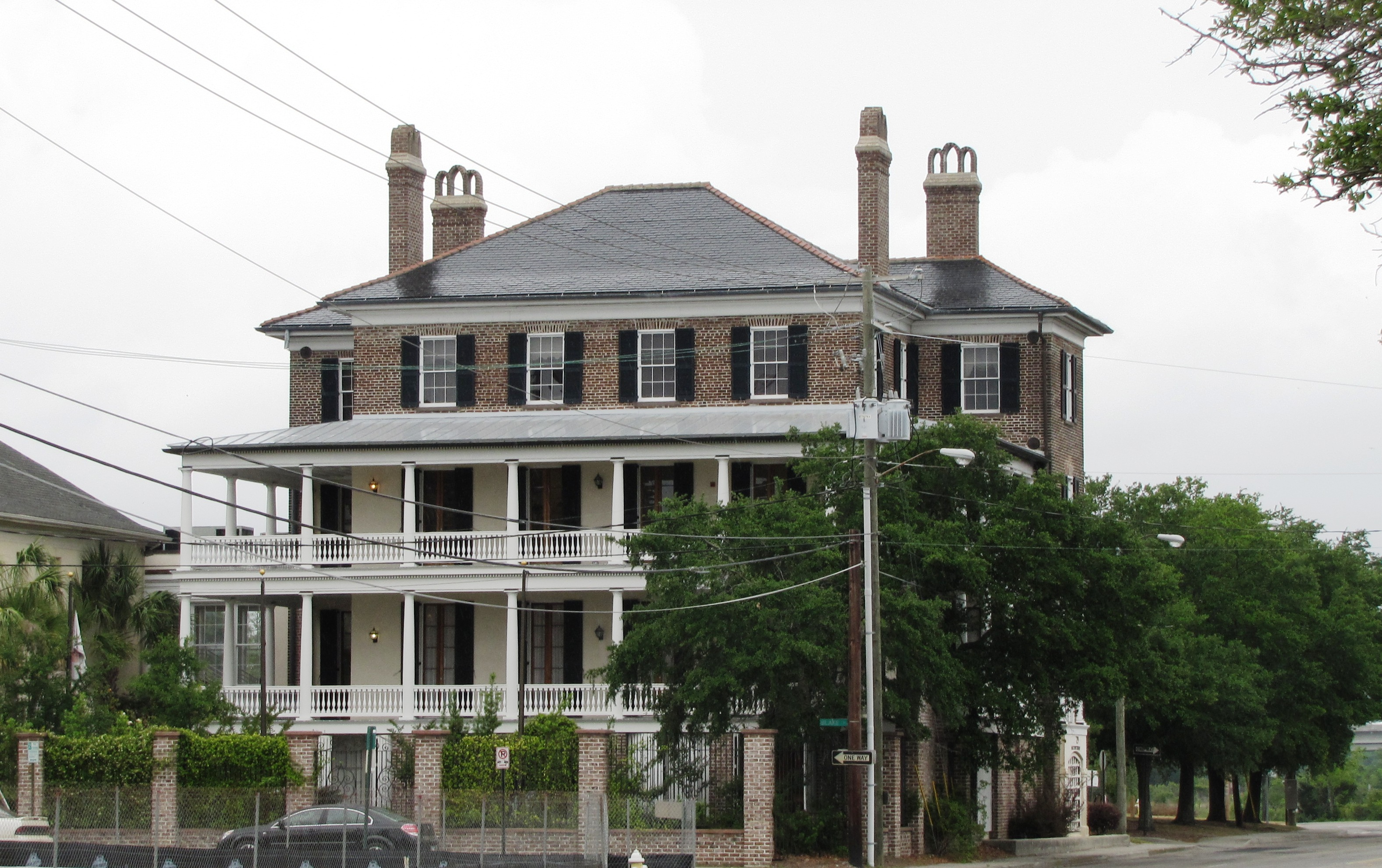 The Josiah Smith Tennent House, built circa 1859, in Charleston, South Carolina, USA. The building was restored in the 1990s and is now used for office space.